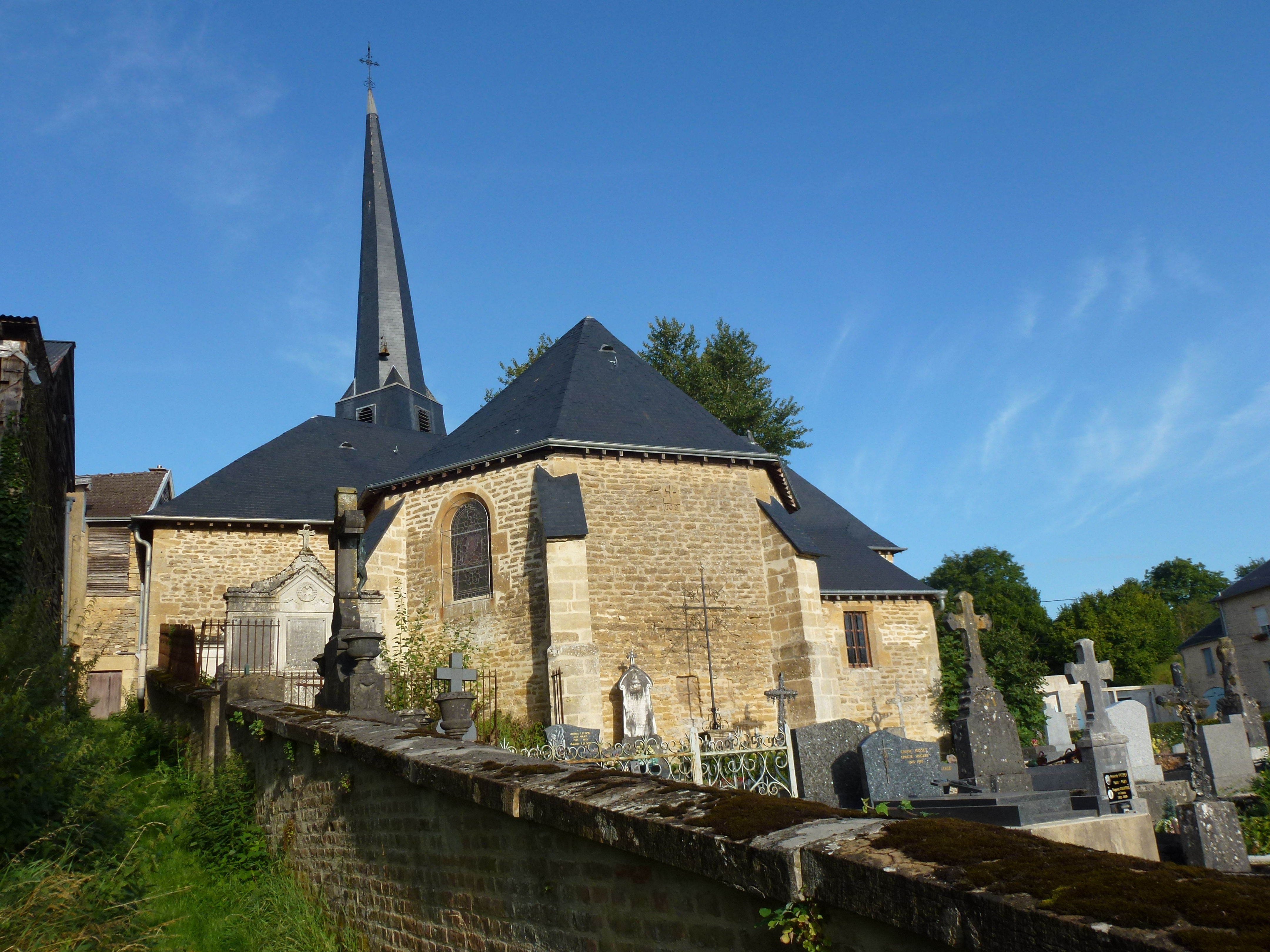 Suzanne (Ardennes) église, chevet